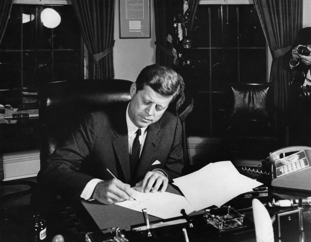 October 23, 1962: President Kennedy signs Proclamation 3504, authorizing the naval quarantine of Cuba.